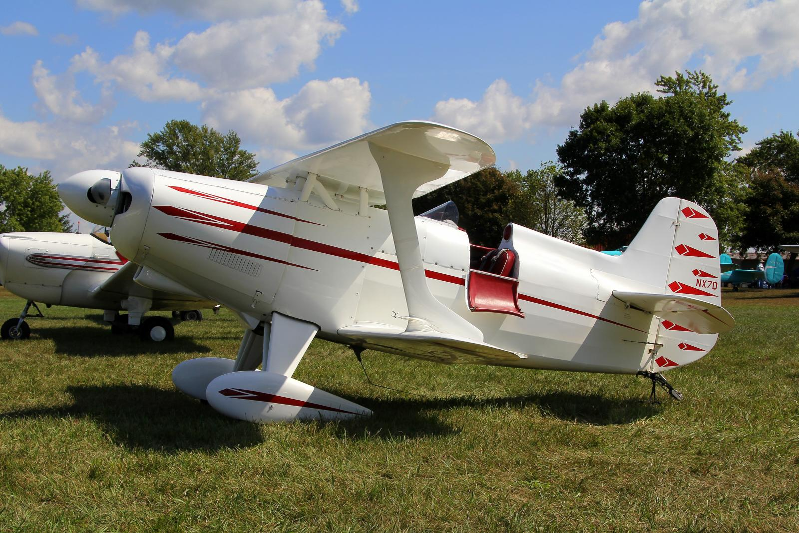 1951 Knight Twister 125 C/N D-1